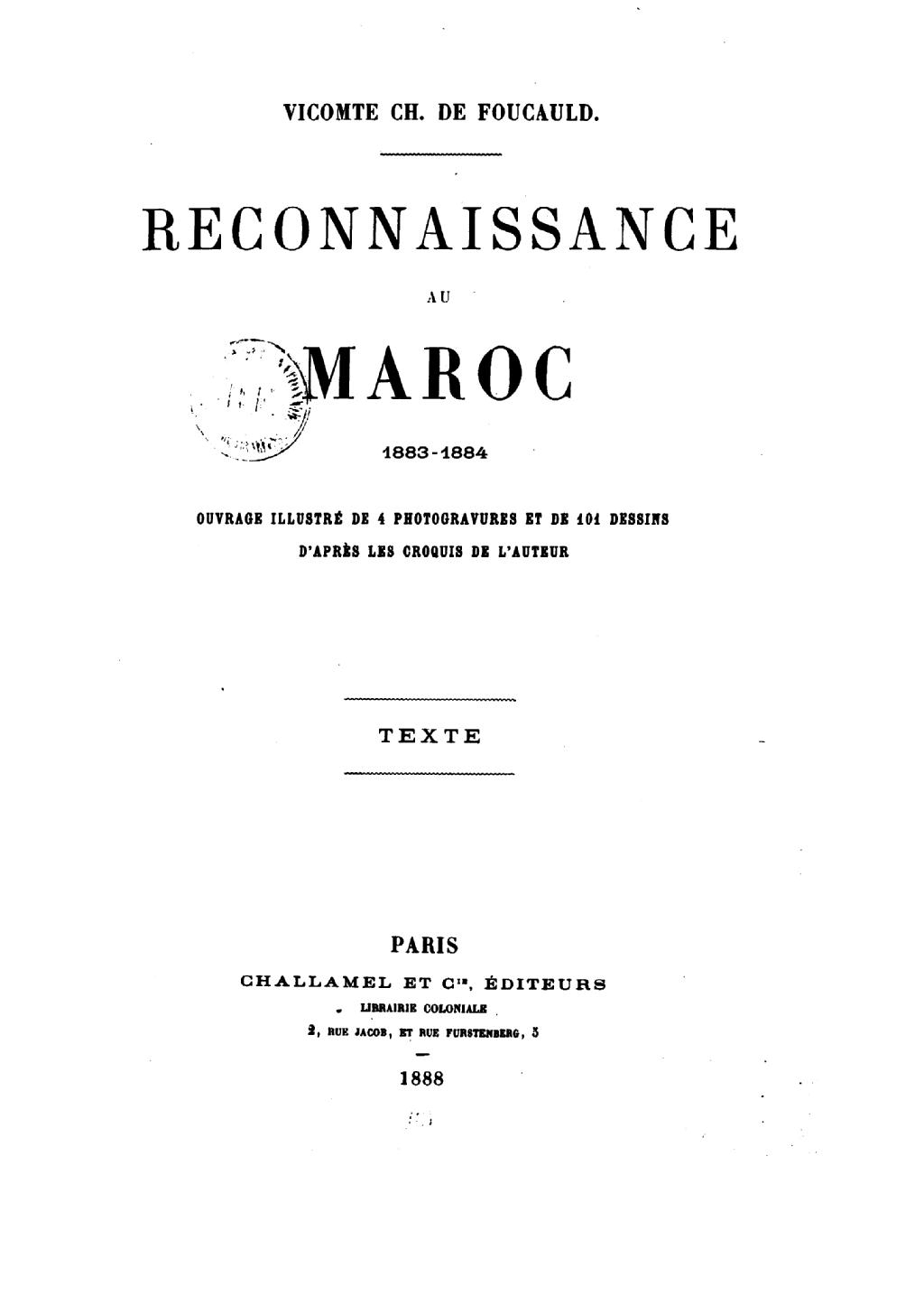 Charles de Foucauld (1888), Reconnaissance au Maroc (1883-1884): title page.